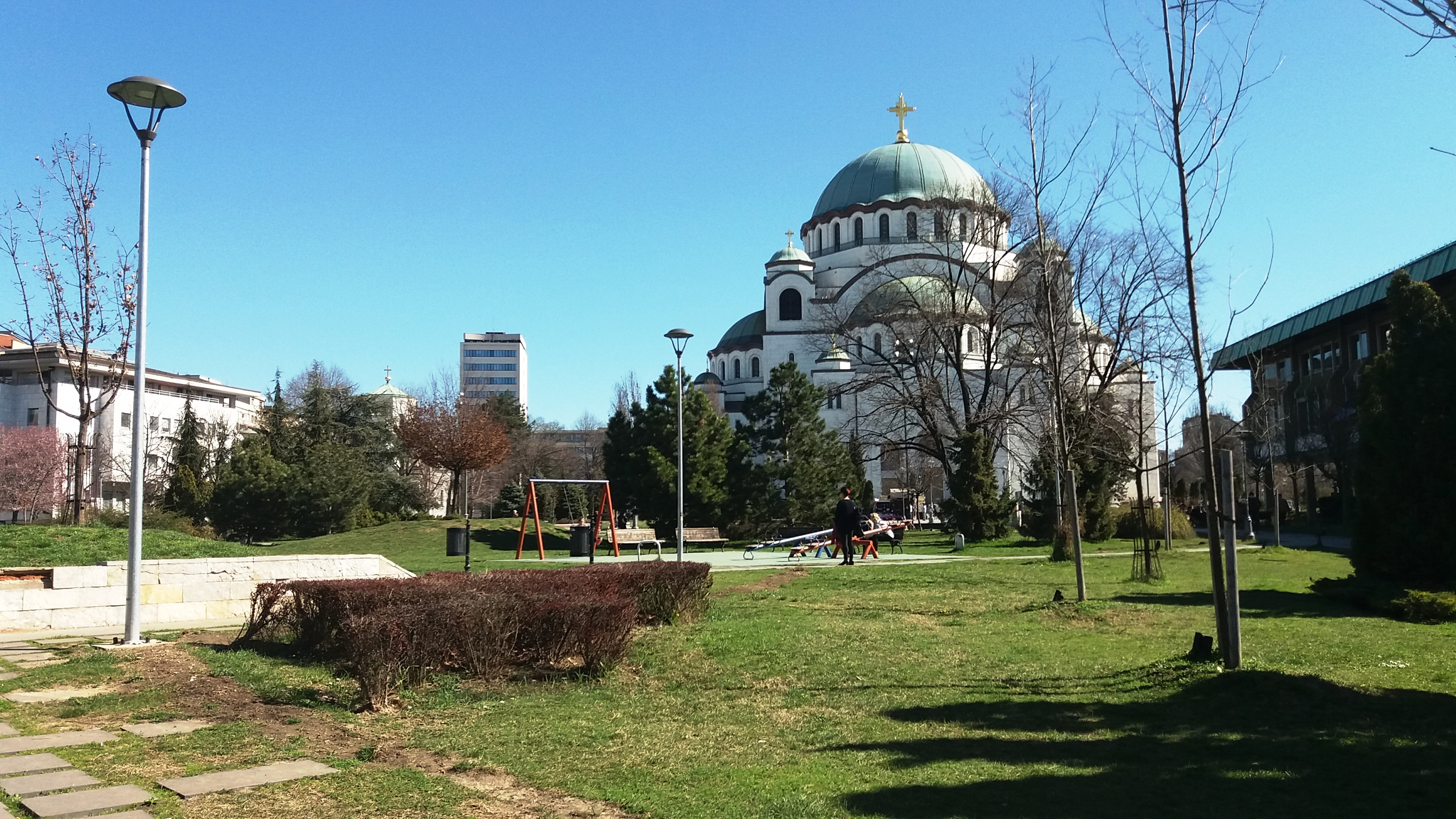 Svetosavski Plateau, Vracar Municipality, Belgrade